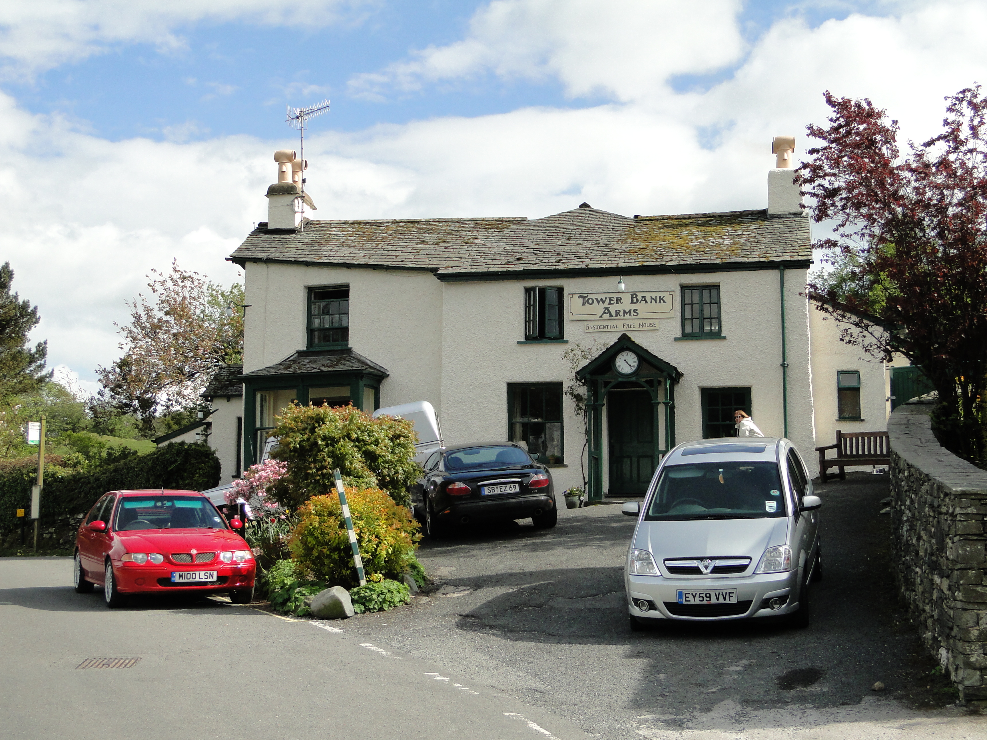 The Tower Bank Arms, Near Sawrey, Cumbria. One of the subjects used by Beatrix Potter for an illustration in The tale of Jemima Puddle-duck. The public house is just a few hundred yards from Potter's former home, Hill Top.